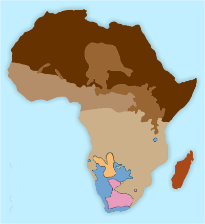 Pre-Settler Language Map of Africa with Khoisan Language Families Highlighted (Hadza is excluded)